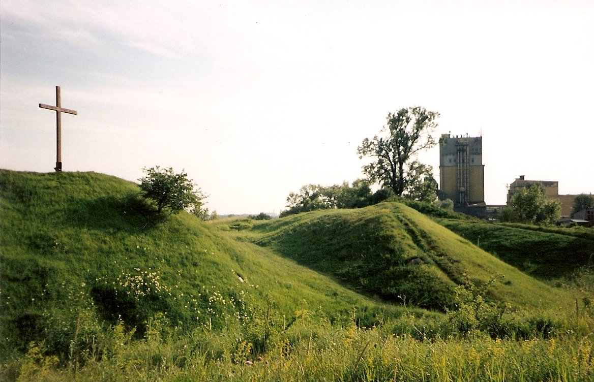 Castle in Wyszogród